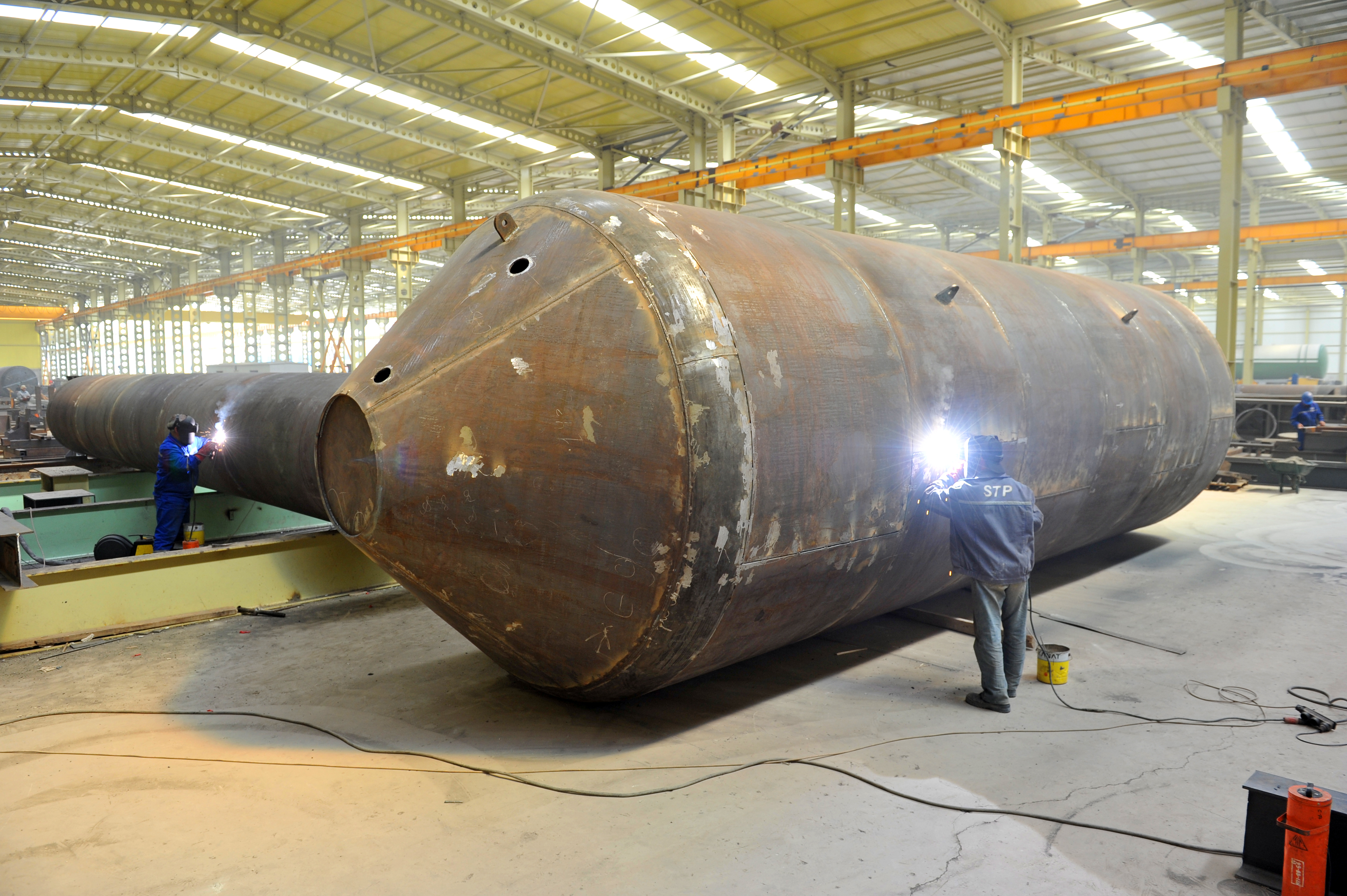 Work process in Mechanical engineering plant of Sumgayit Technologies Park